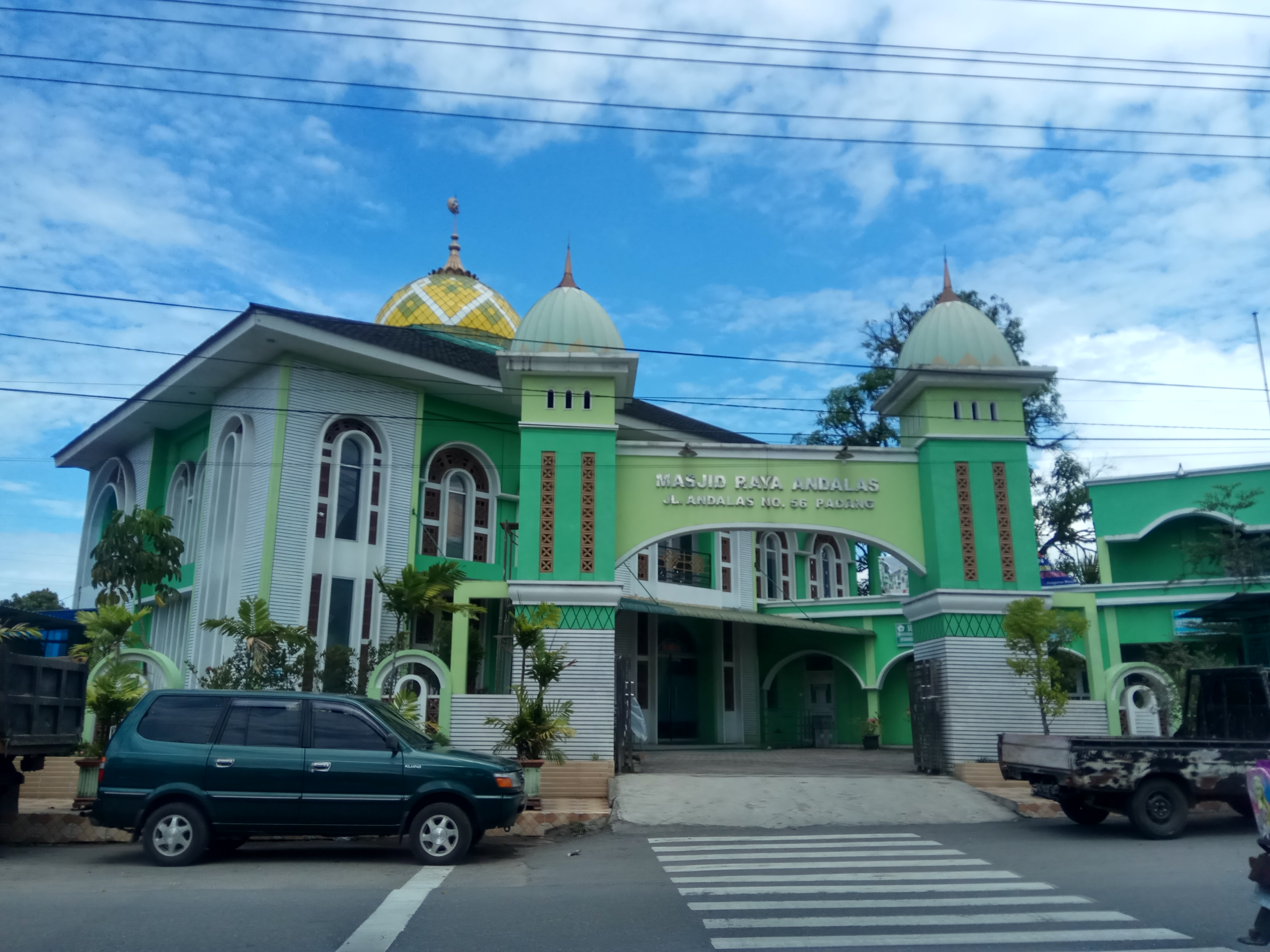 Masjid Raya Andalas 2018